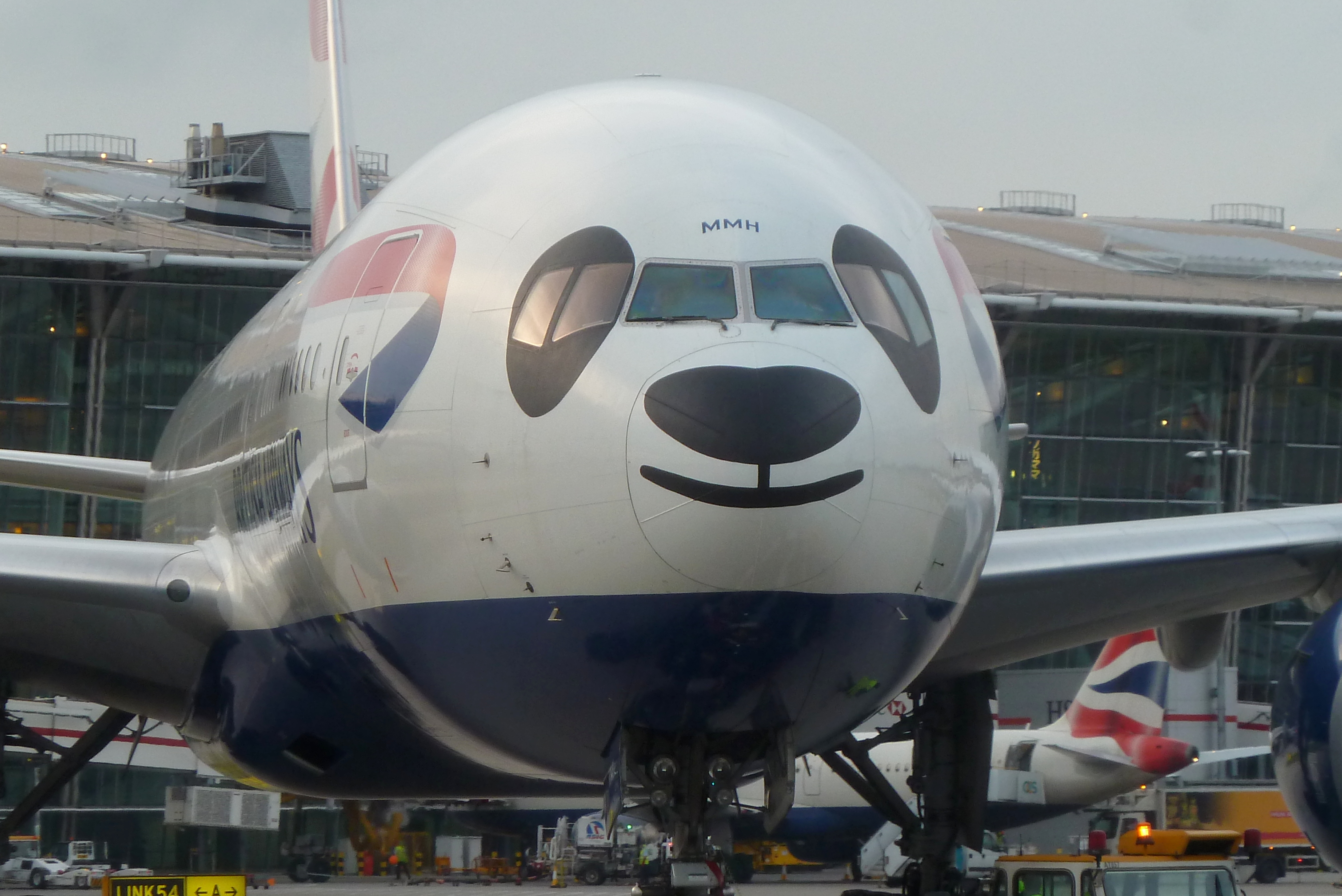 Panda face G-YMMH B777-200 BA pushing back off std my new smiley face...